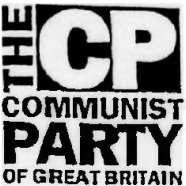 Logo of the Communist party of Great Britain